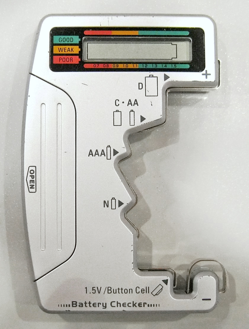 A battery checker